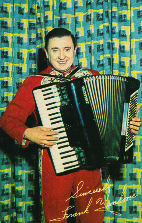 Postcard photo of musician Frankie Yankovic.